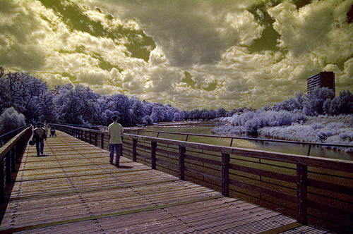 Example for an infrared photography with automatic white balance and tone correction